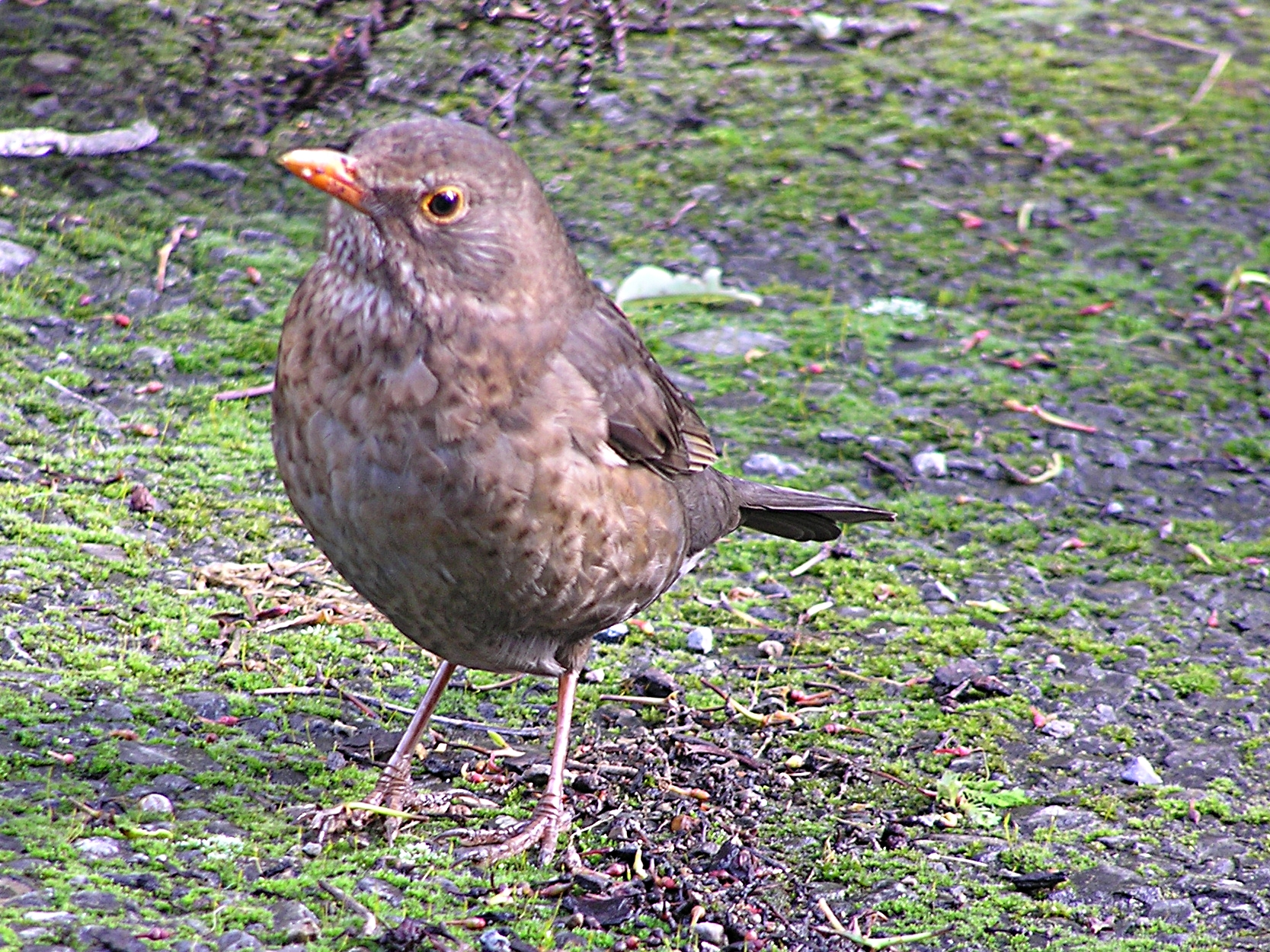 Female blackbird, Wellington, New Zealand.